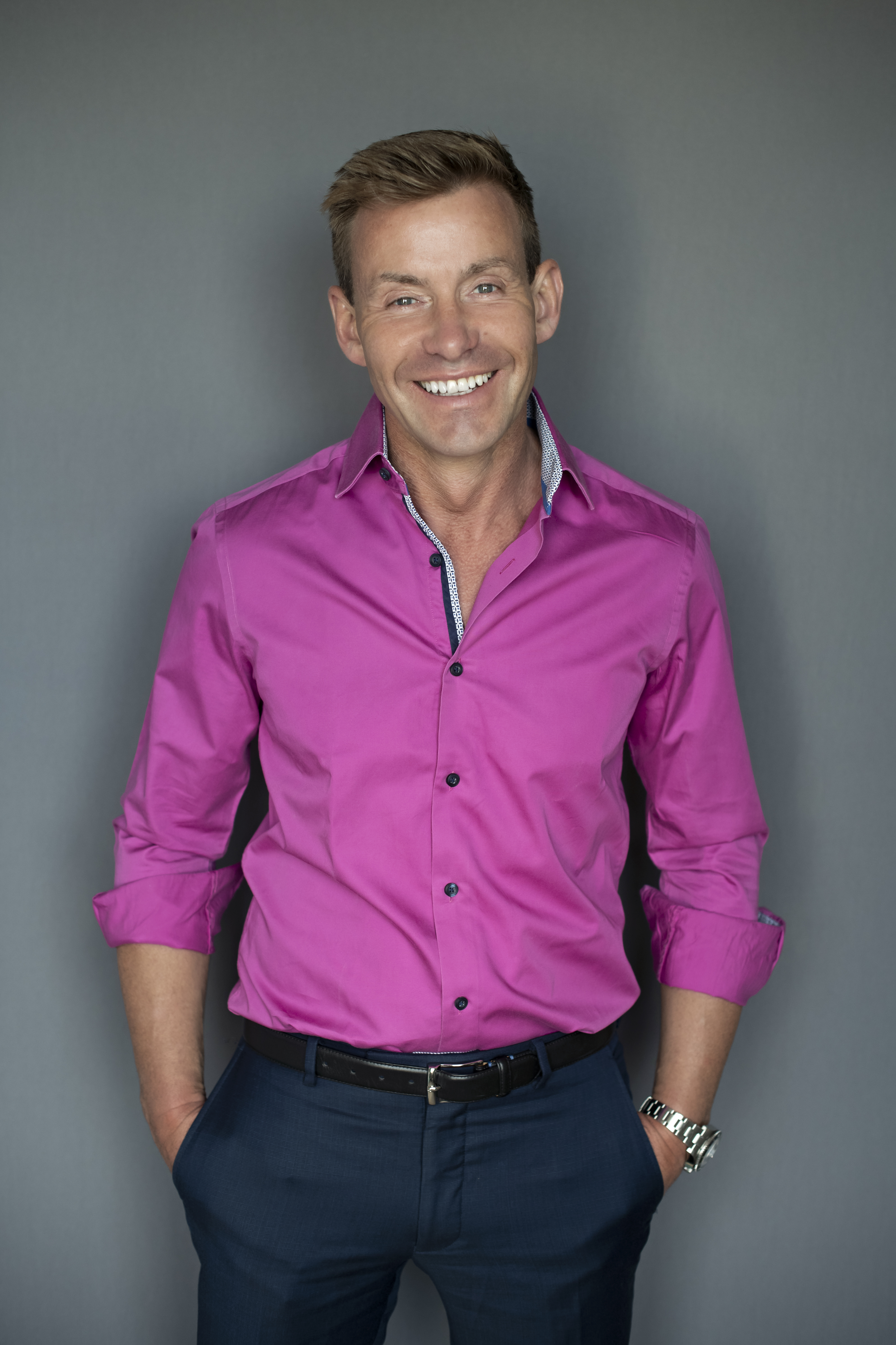 Photograph of David Bull by Jenny Smith 2020